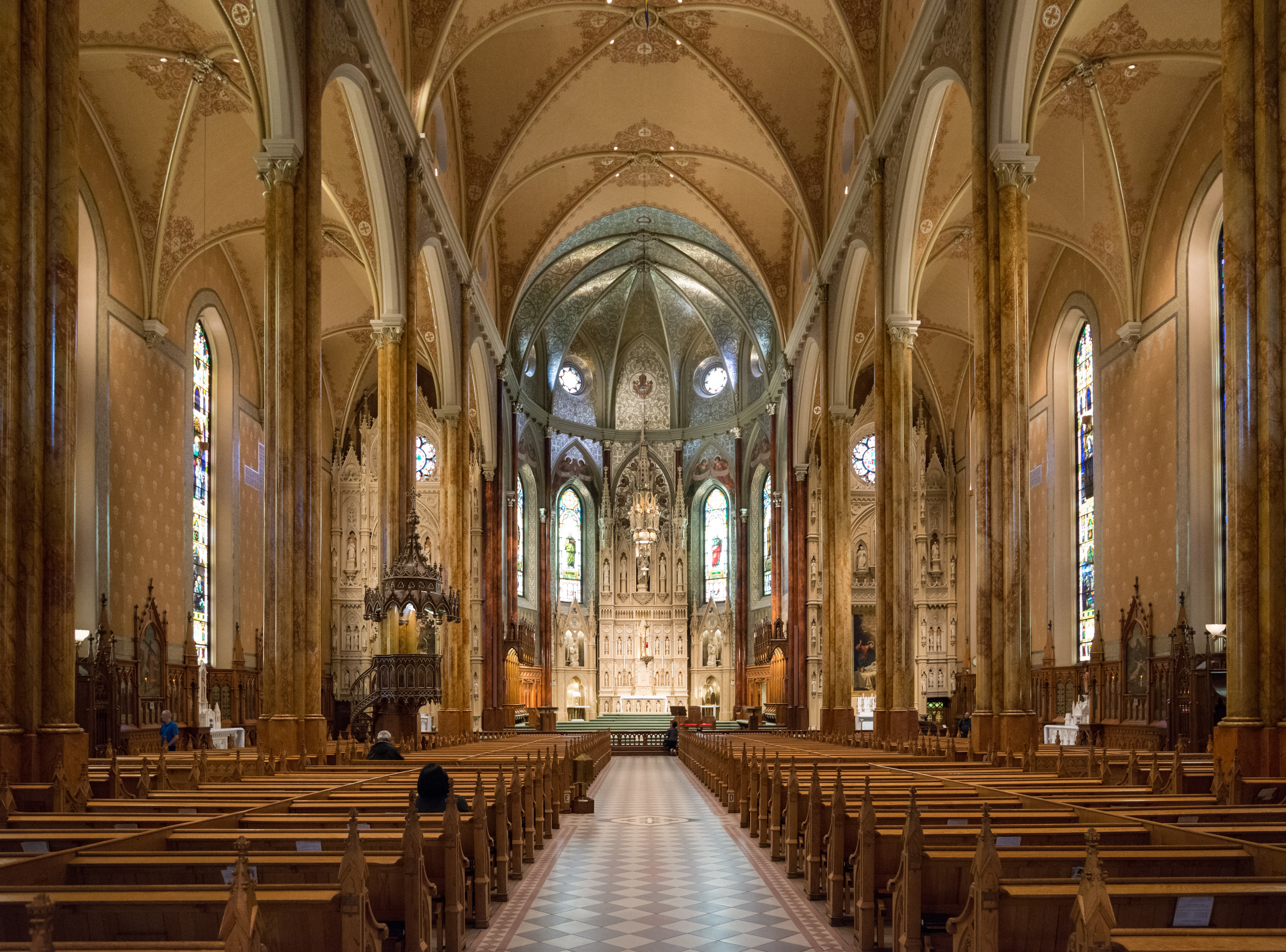 Interior view of St. Patrick's Basilica, Montréal